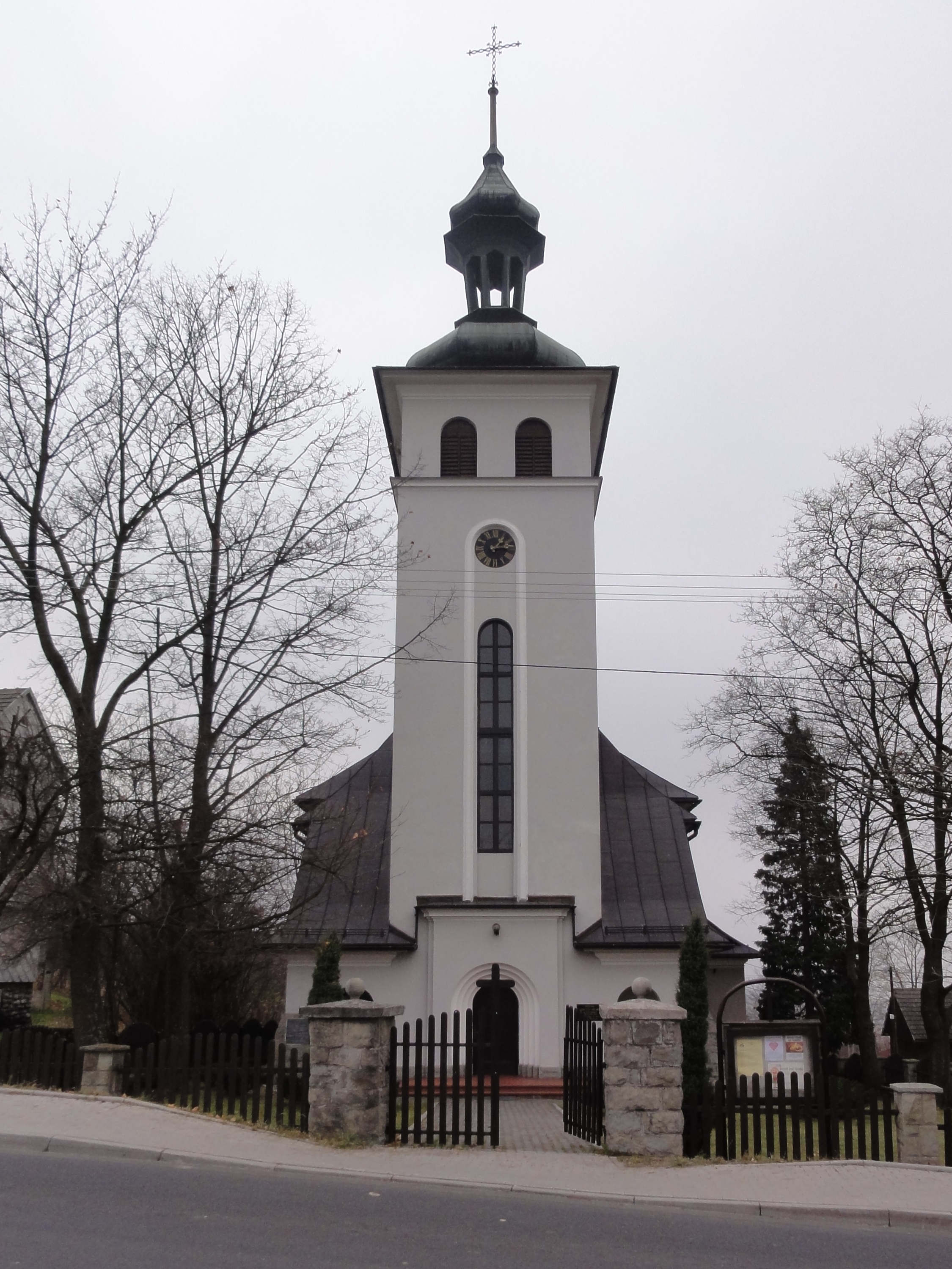 Lutheran church in Istebna